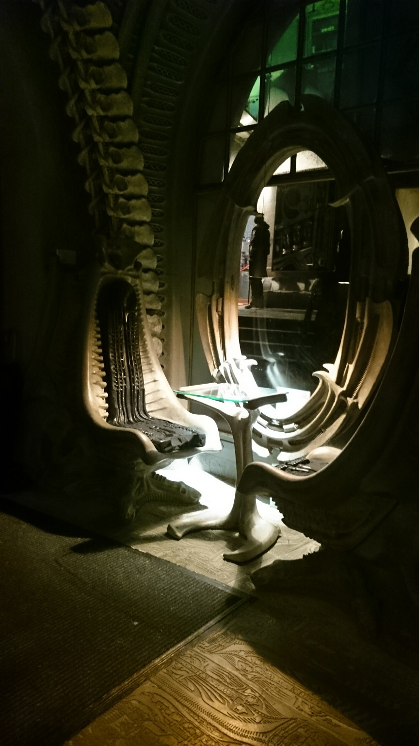 Giger bar 2 111316